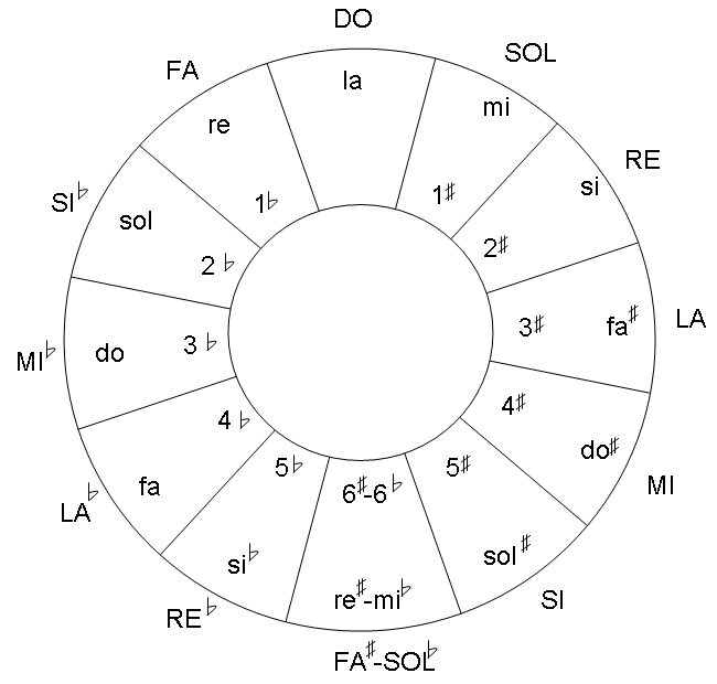 Circle of fifths